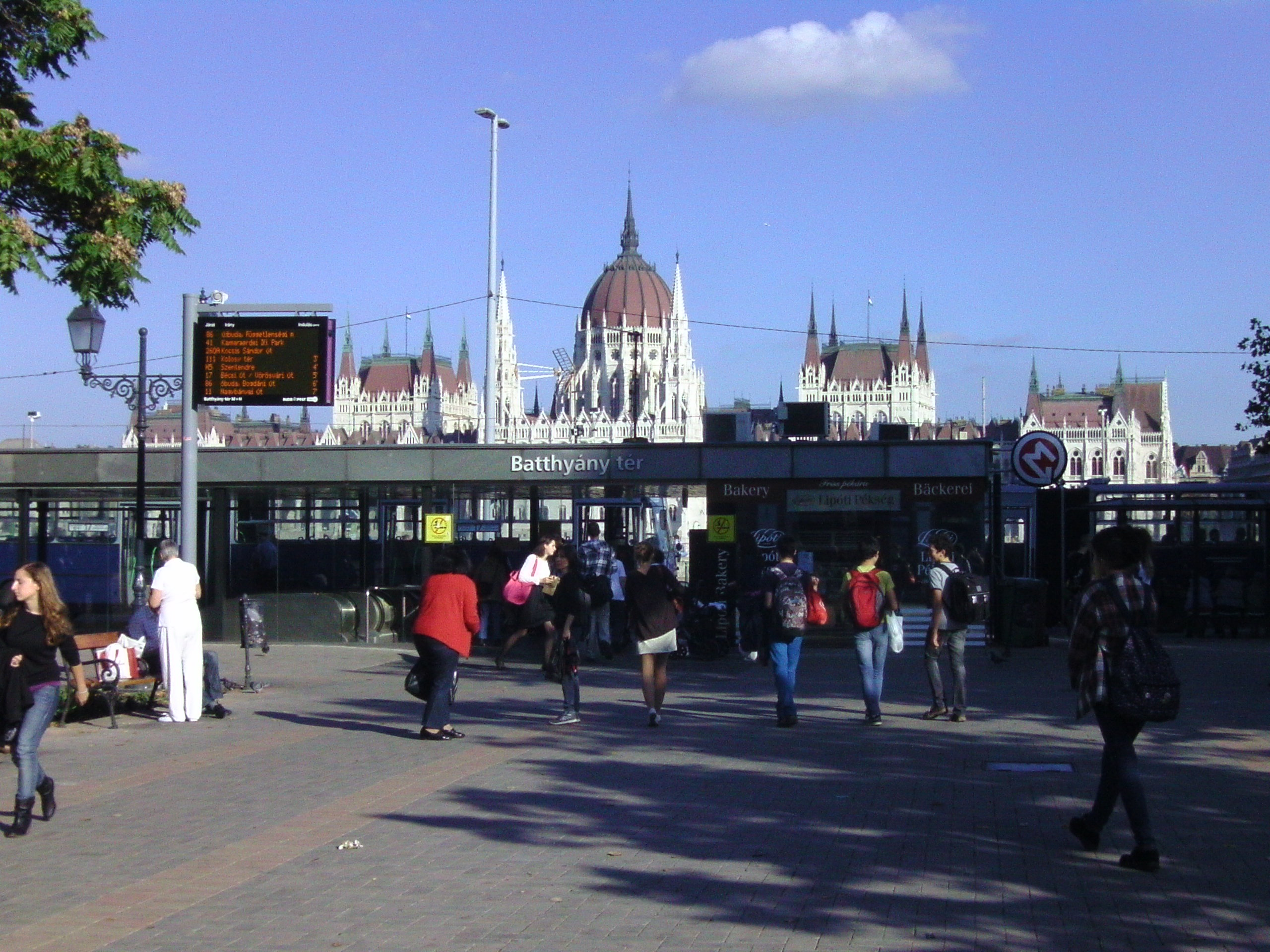 Budapest, I. Batthyány tér, from west